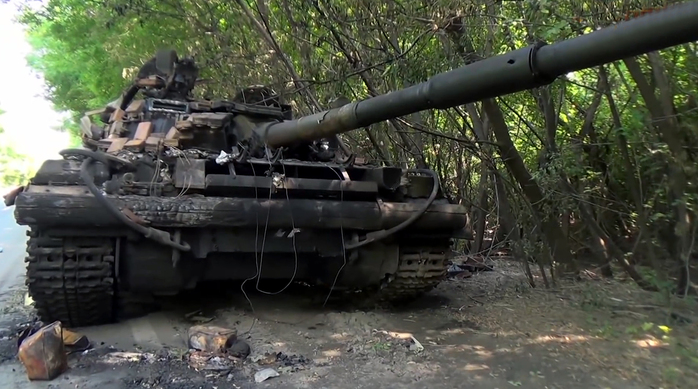 Ukrainian armored column attack into Donetsk on August 4, 2014.